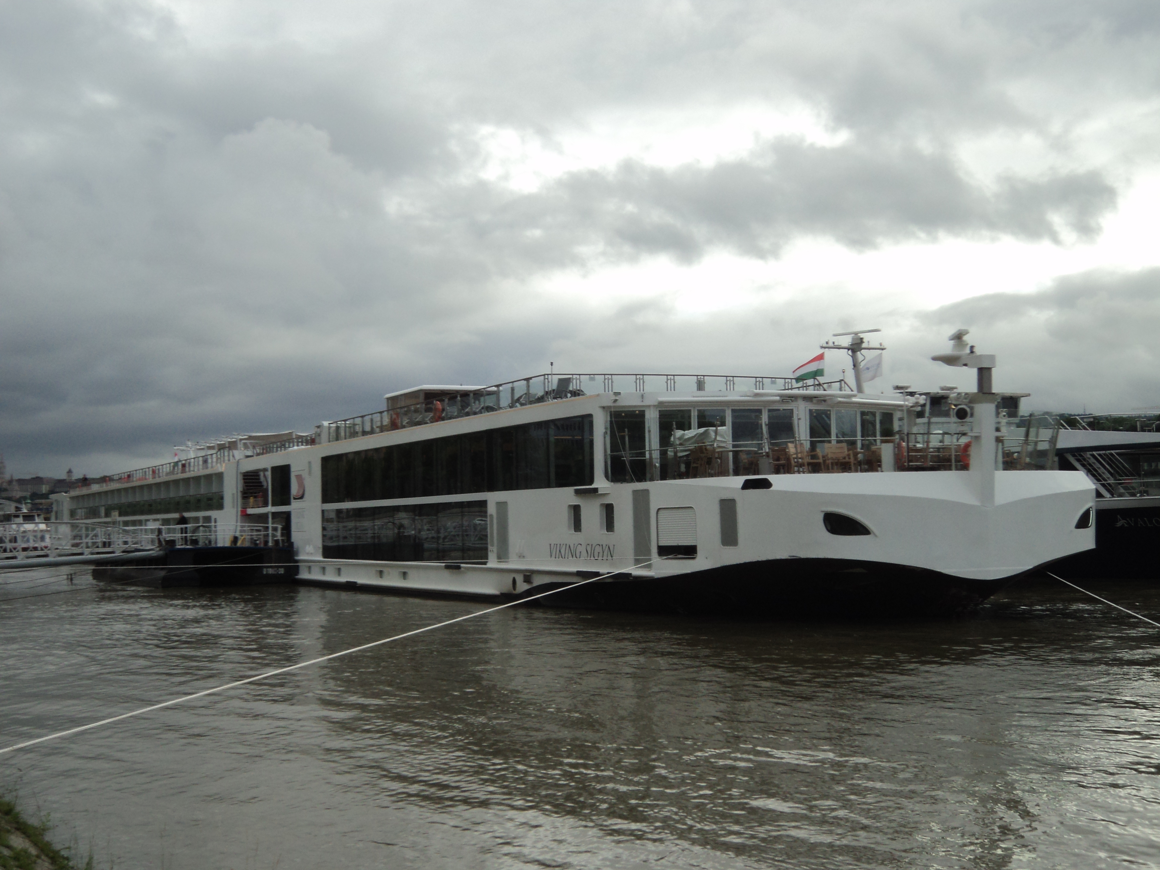 The MV Viking Sigyn (ship, 2019) at Budapest.